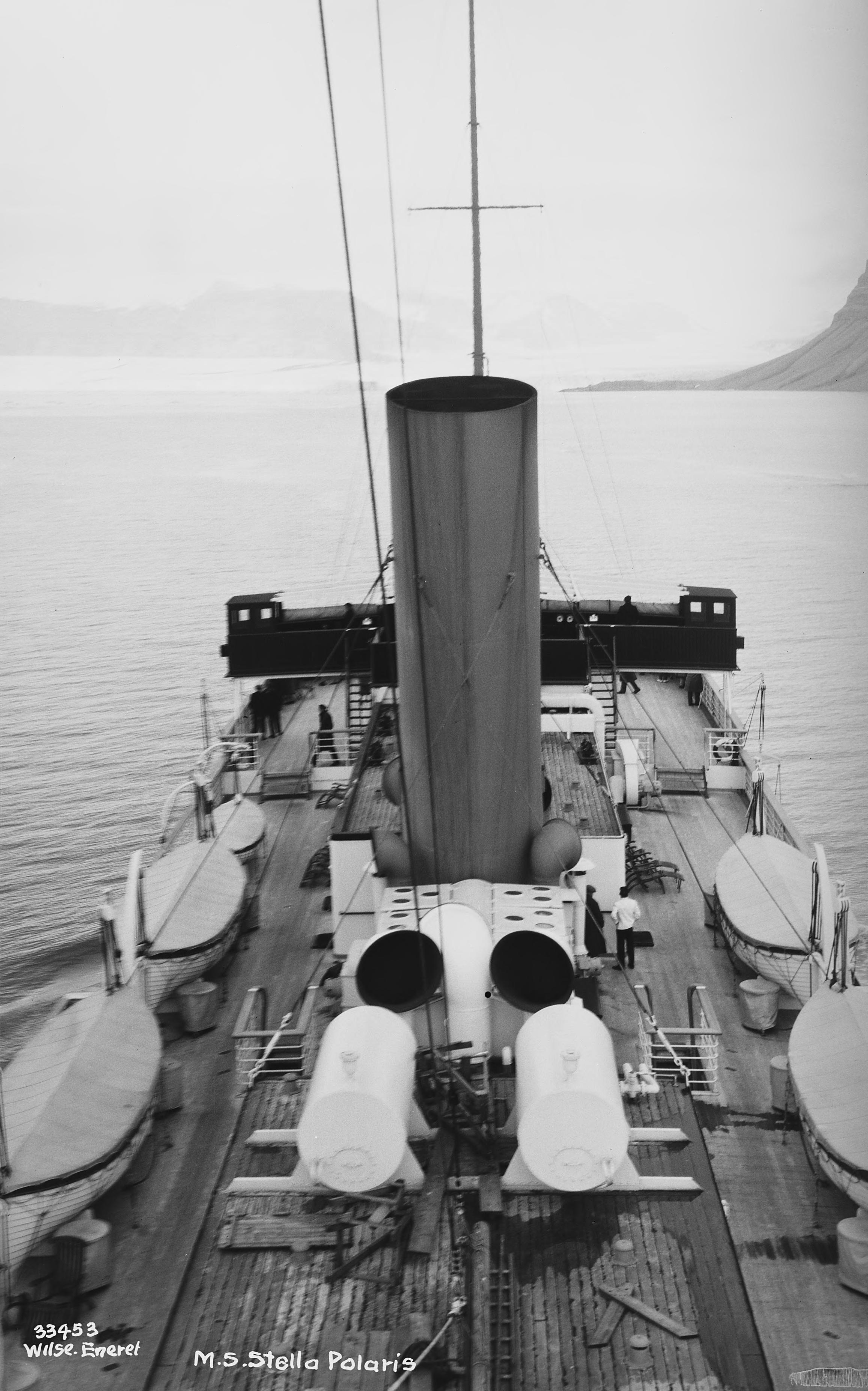 Norwegian cruiseship MY Stella Polaris built in 1927. Norsk (bokmål): Turistskipet MY «Stella Polaris», bygd i 1927. Bildet er tatt ved Svalbard